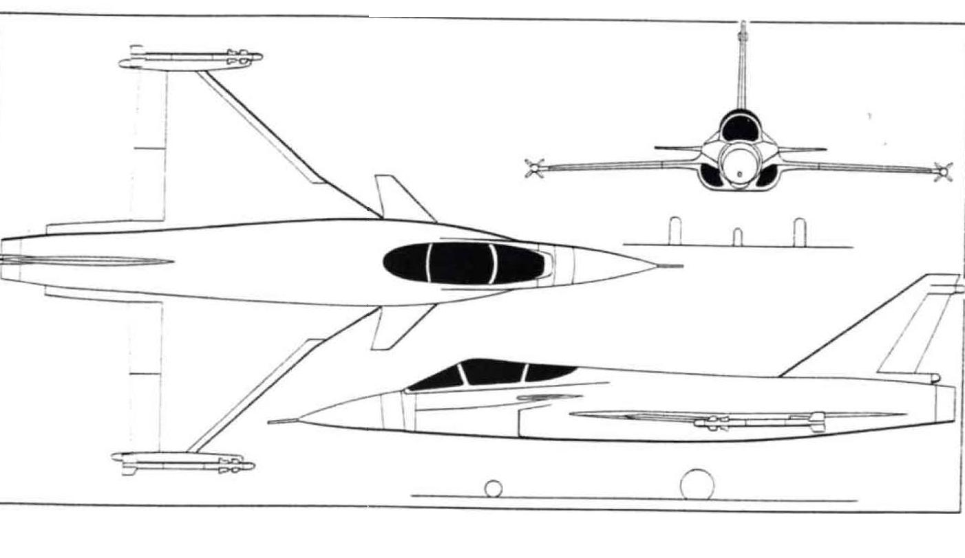 three view of Yu Supersonik (Novi Avion)